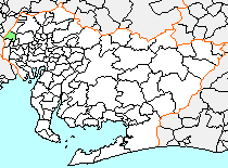 Position of former Sobue town (祖父江町), Aichi, Japan